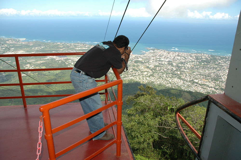 A view of Puerto Plata (Silver Harbour) in Dominican Republic from the cable car station on top of Isabel de Torres peak (800m/2,565ft a.s.l.) Photograph taken by Henryk Kotowski in November 2004.